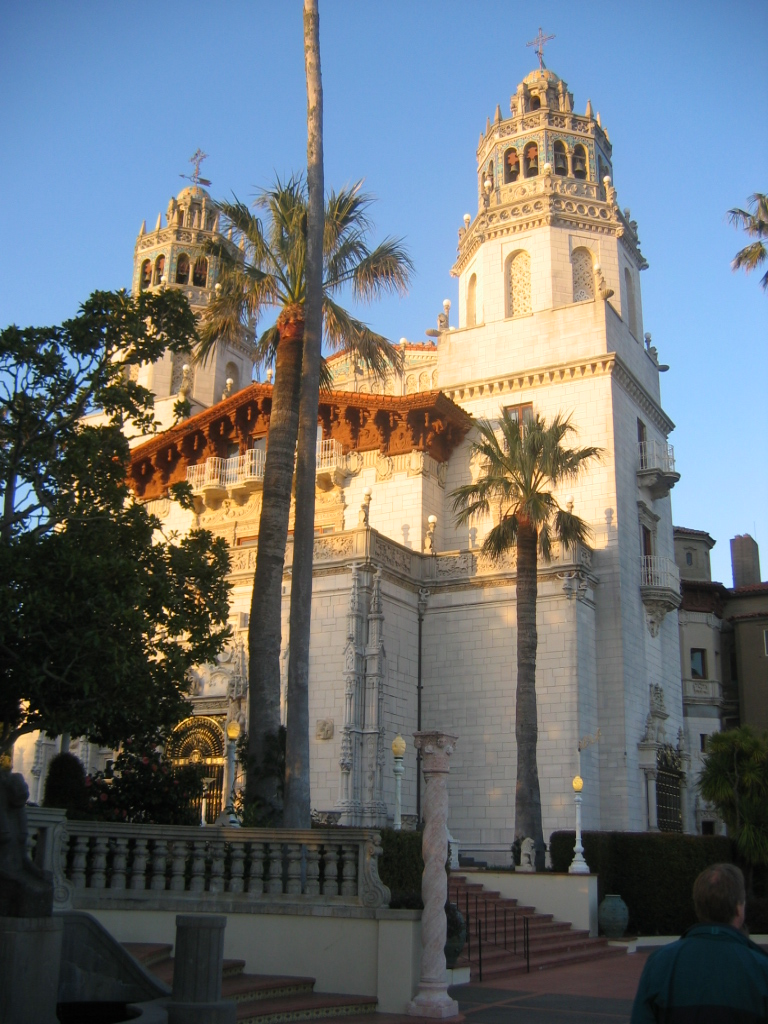 Description : Casa Grande, Hearst Castle, California, USA. Author : own work, Urban ; I took this picture on April 2006.